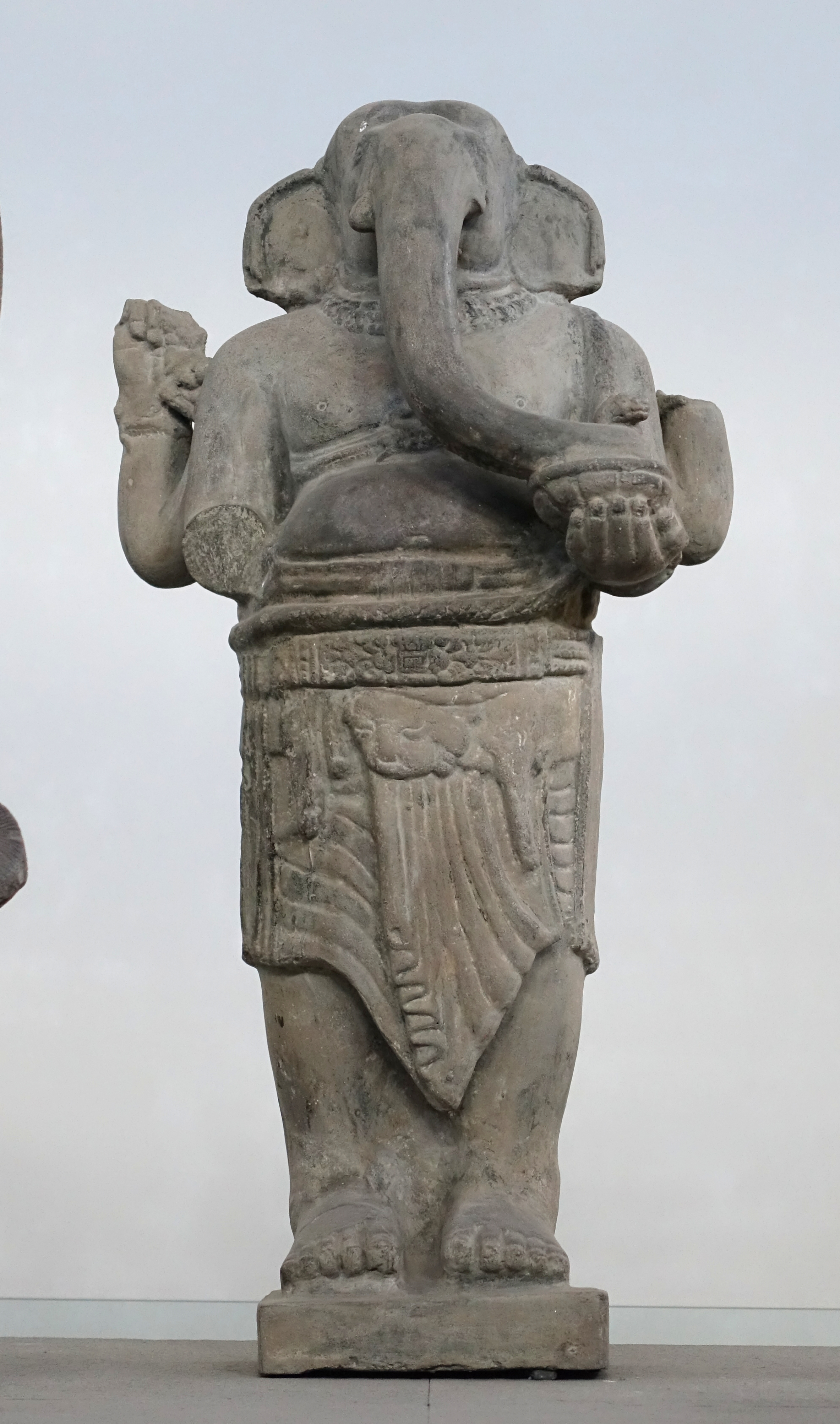 Cham sculpture at the Museum of Cham Sculpture, Da Nang, Vietnam. This artwork is in the public domain because the artist died more than 70 years ago.